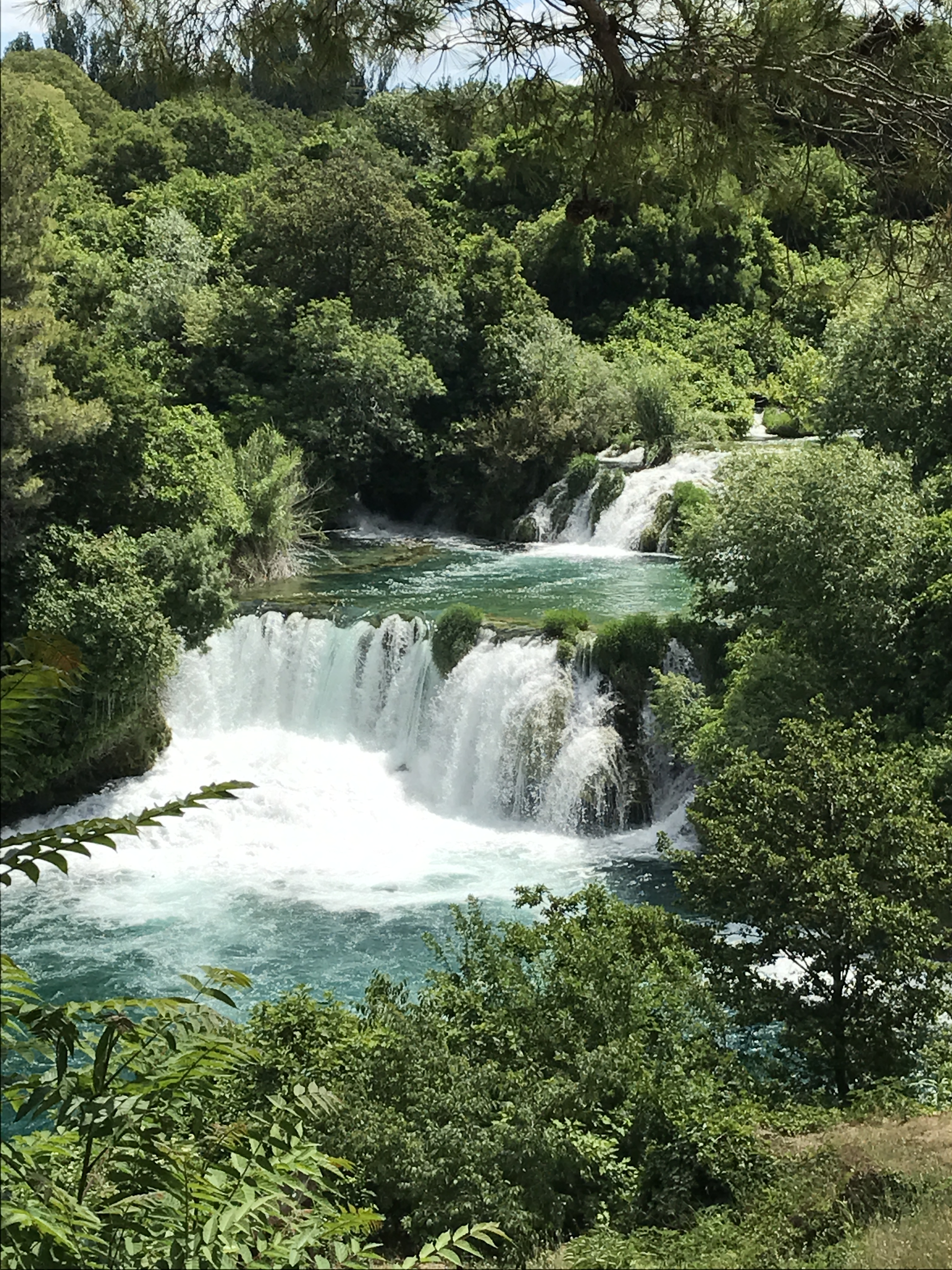 Waterfall at krka national patk